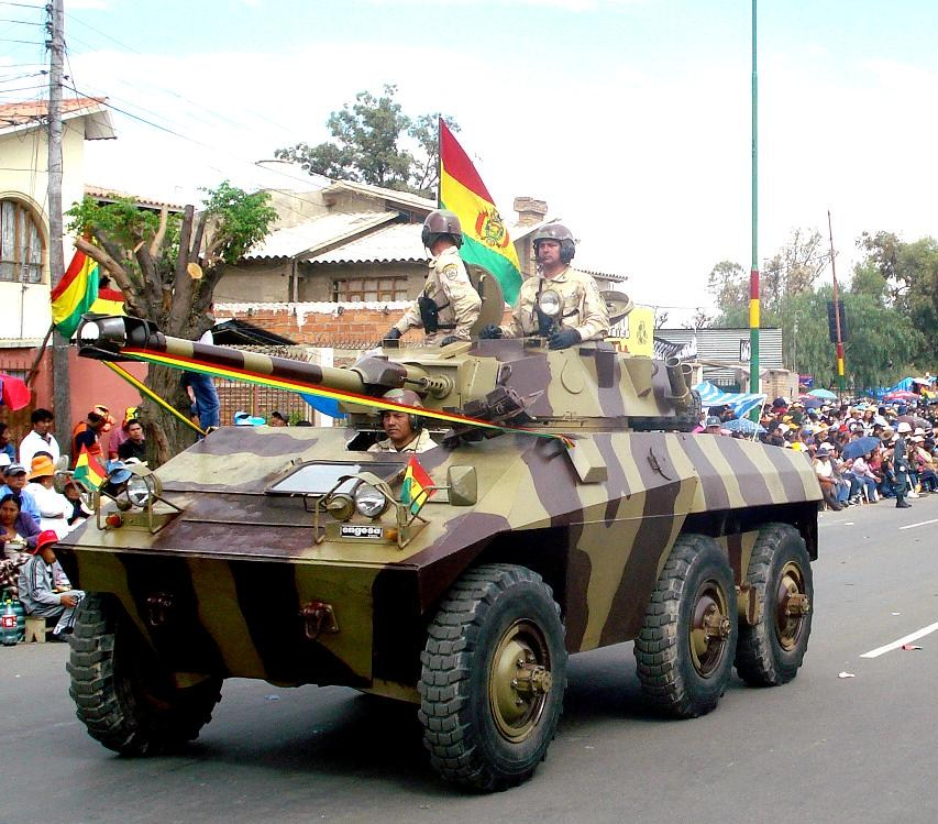 EE-9 Cascavel armored Bolivia during the military parade in Cochabamba, in commemoration of the Independence of Bolivia.